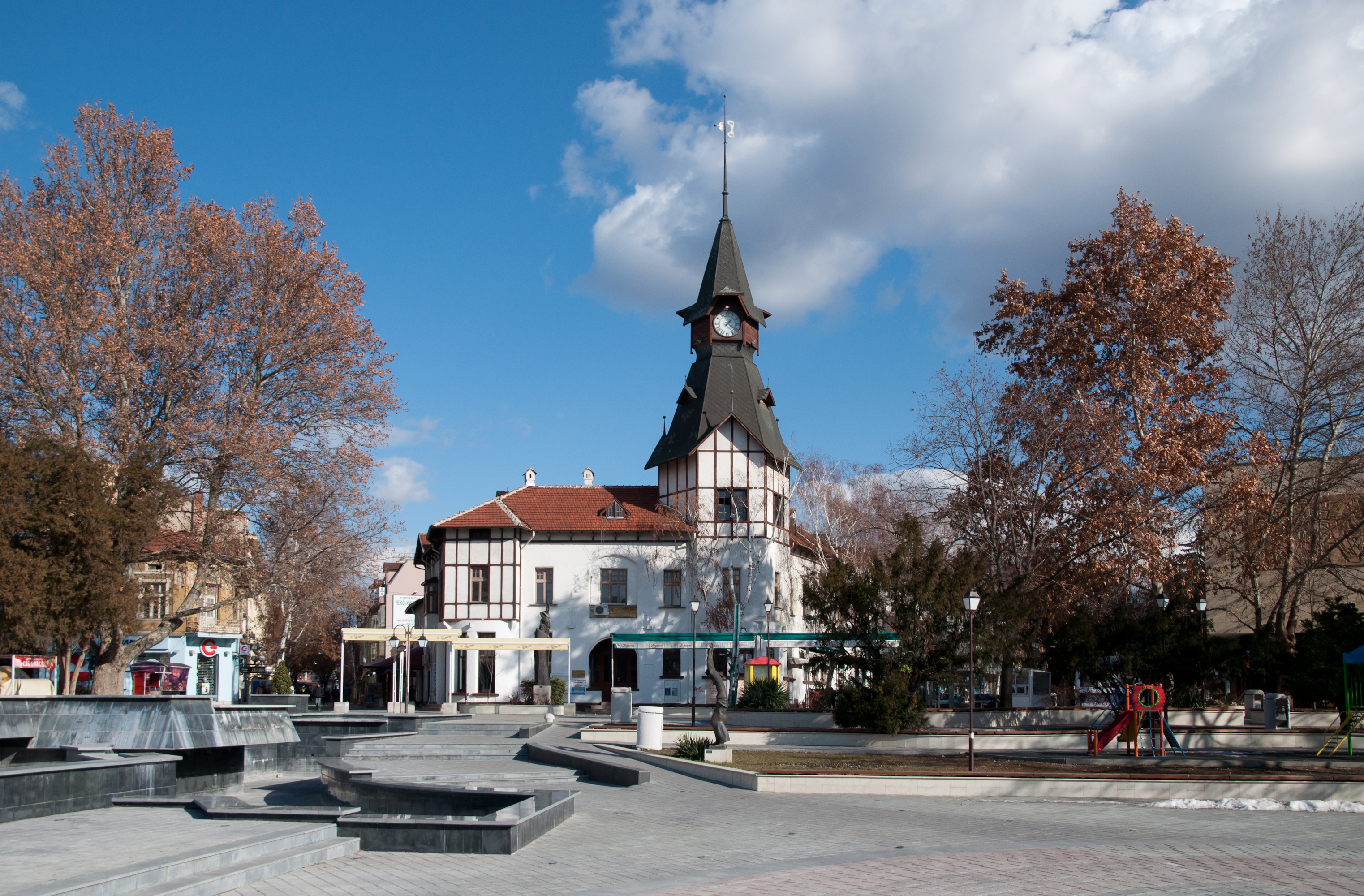 The old post office building at Konstantin Velichkov square in the city centre of Pazardzhik, Bulgaria.